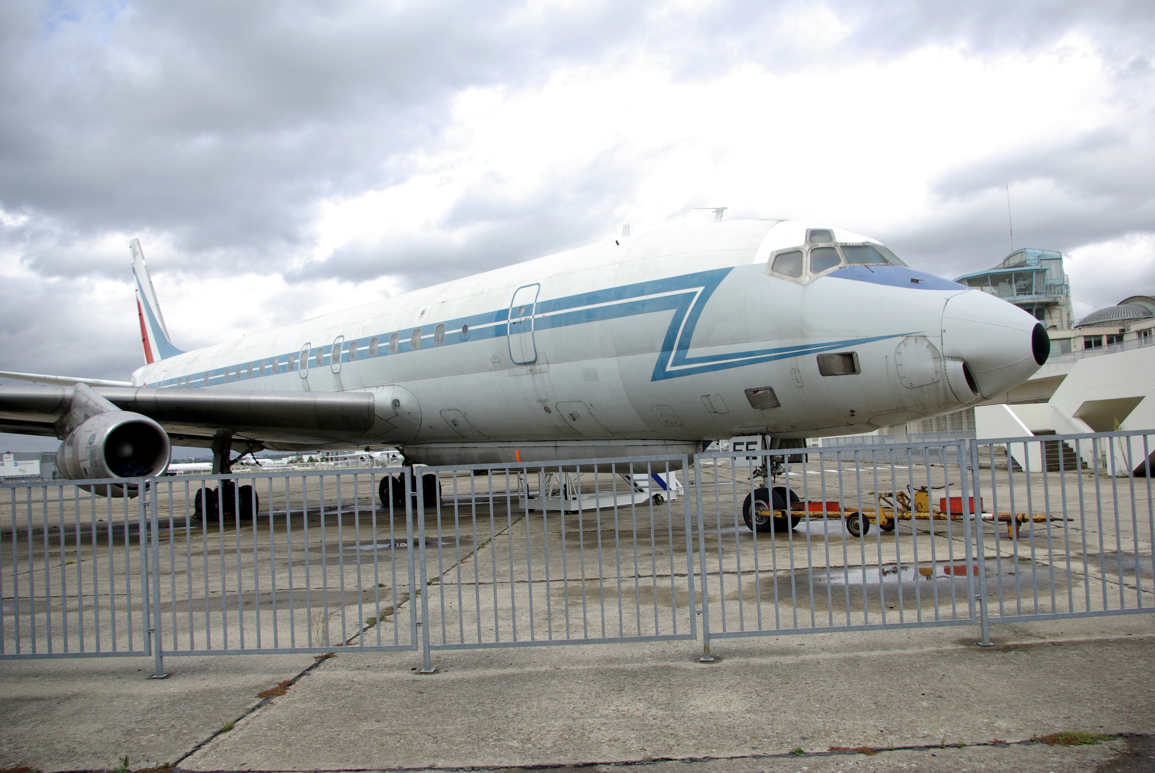 DC-8-53 F-RAFE / 45570; A french electronic warfare aircraft DC-8 SARIGUE exhibited at the Air & Space Museum at Le Bourget, France.